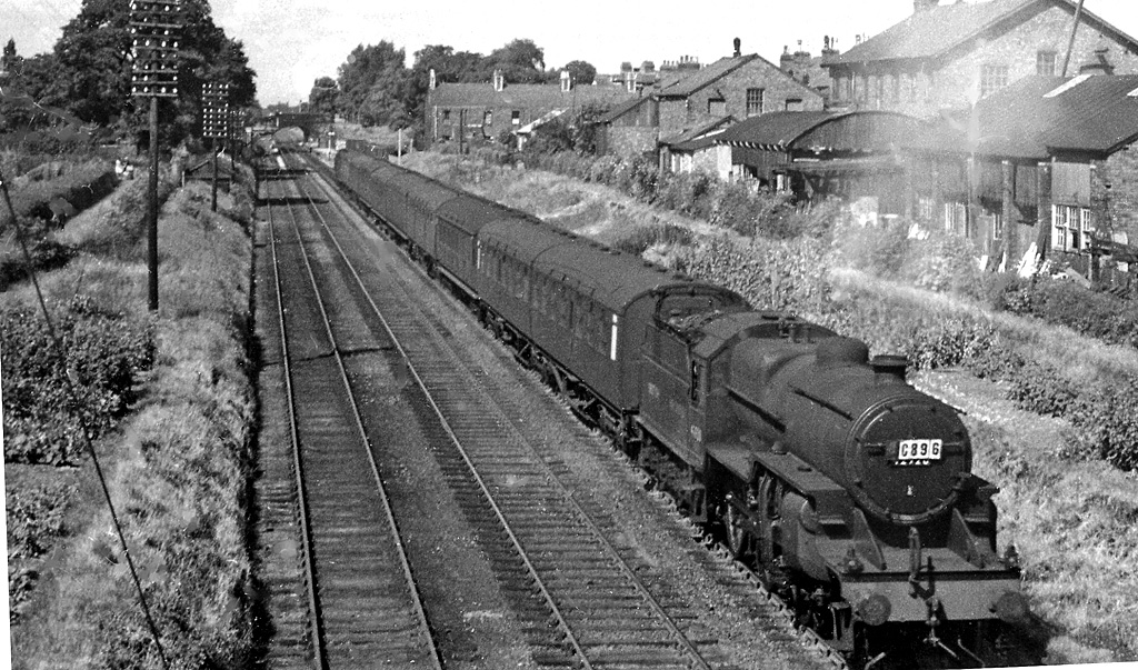 Up holiday express south of Alderley Edge Station. View northward, towards Manchester; ex-London & North Western Manchester (London Road) - Crewe main line. The train is a Manchester - Plymouth express, headed by Hughes/Fowler 5P4F 2-6-0 No. 42920.